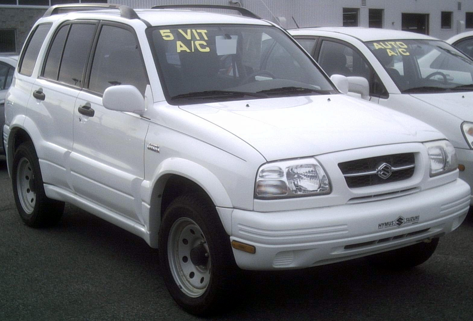 1999-2004 Suzuki Grand Vitara photographed in Montreal, Quebec, Canada.